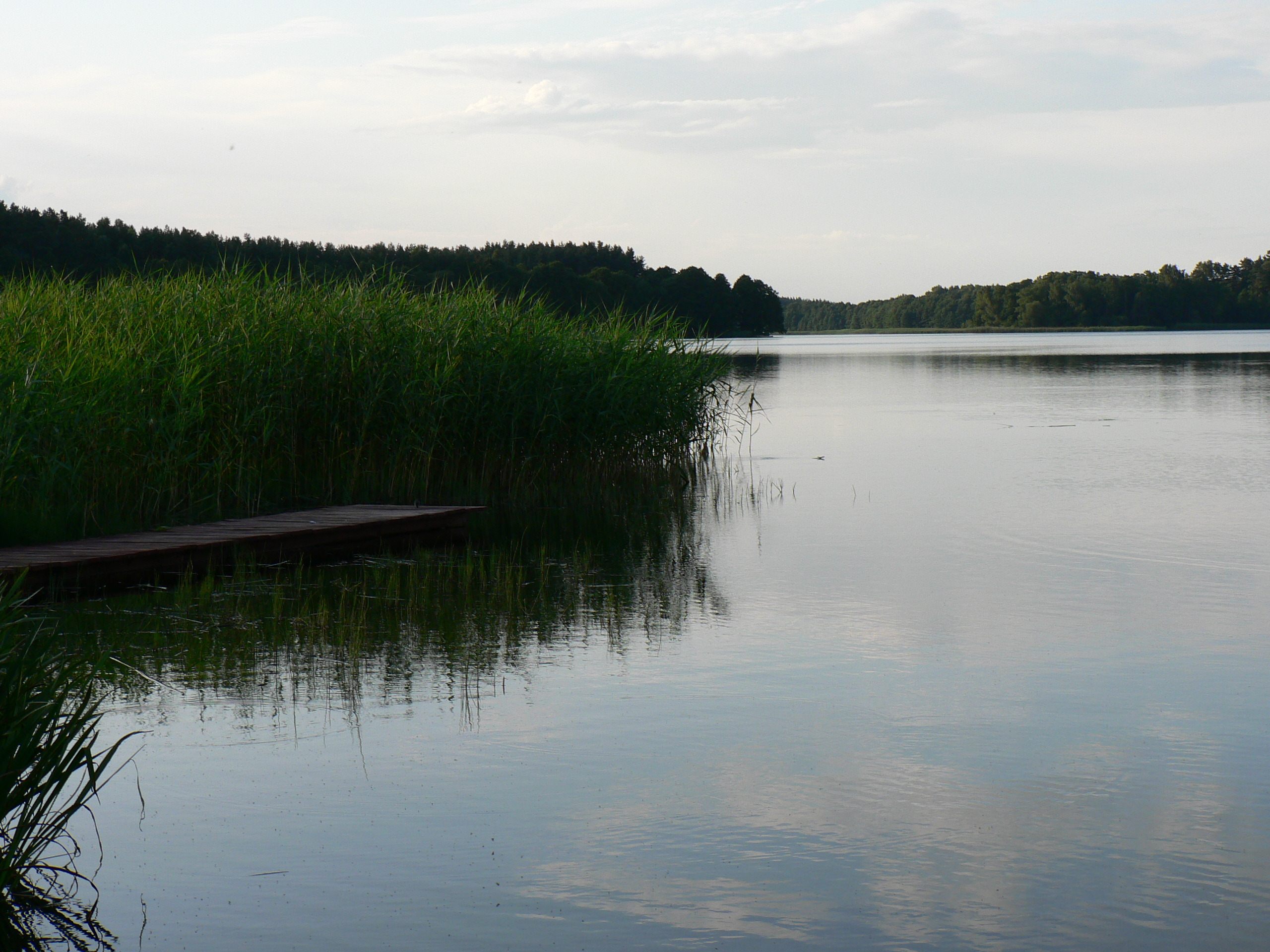 Łańskie Lake from south end